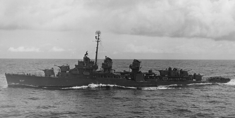 USS The Sullivans (DD-537) off Ponape, 2 May 1944.